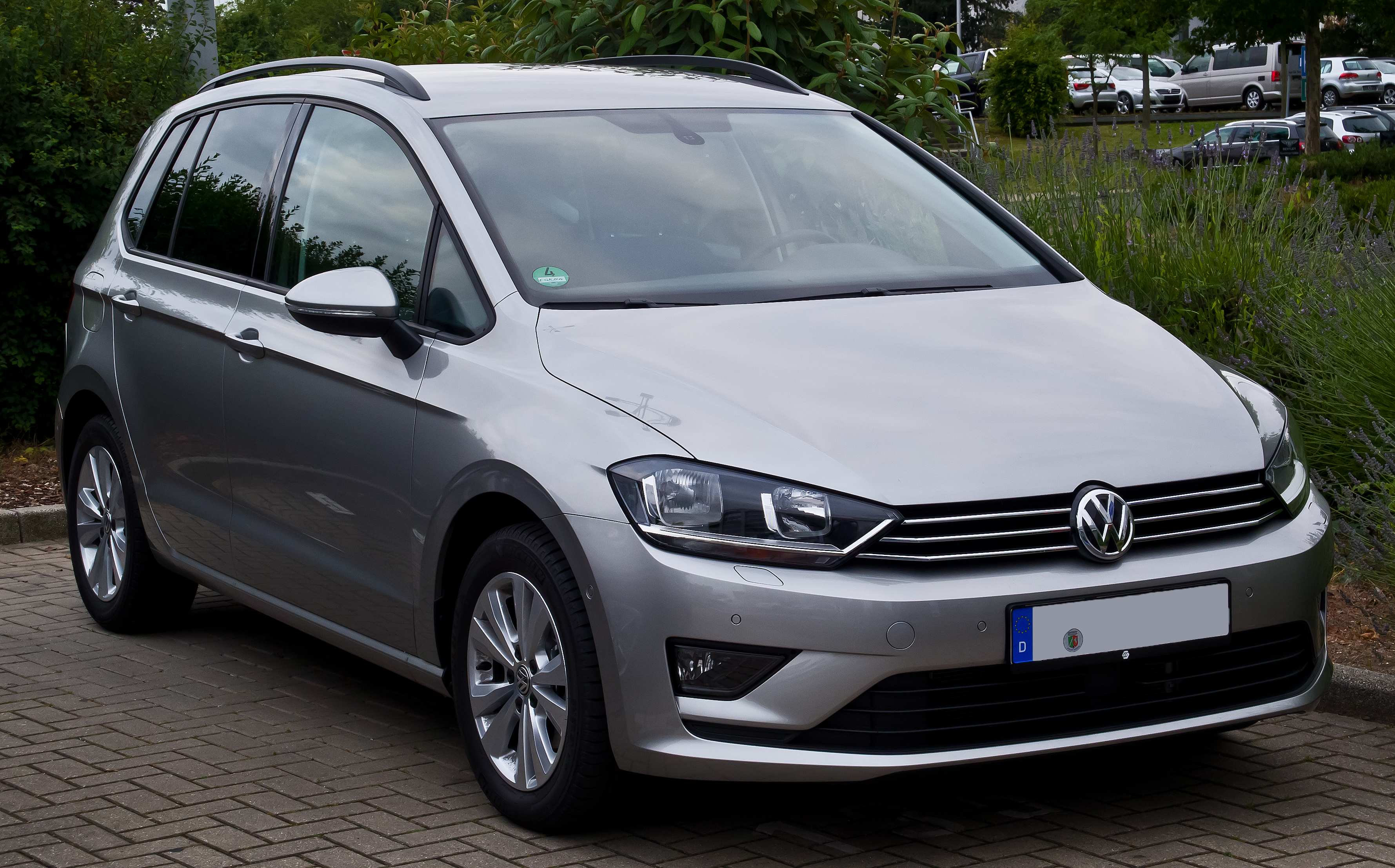 VW Golf Sportsvan 2.0 TDI BlueMotion Technology Comfortline